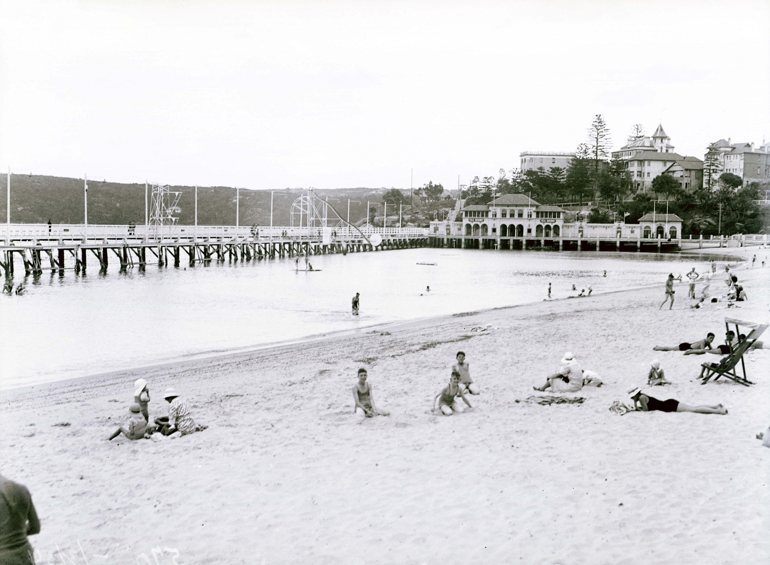 Title: Manly Cove, Manly Dated: No date Digital ID: 9856_a017_A017000162 Rights: We'd love to hear from you if you use our photos/documents. Many other photos in our collection are available to view and browse on our website using Photo Investigator.